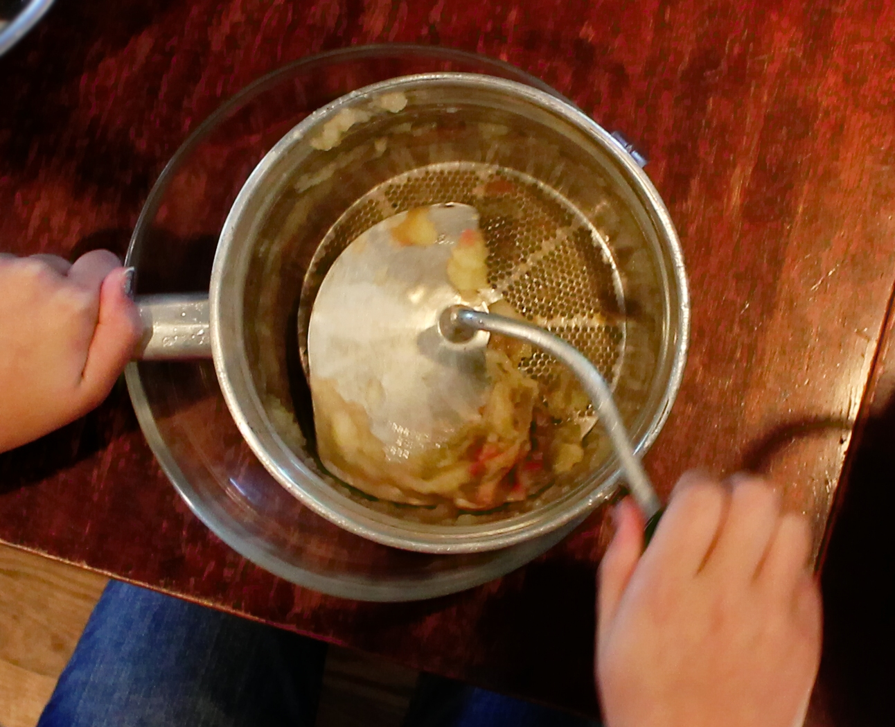 applesauce foley grinder